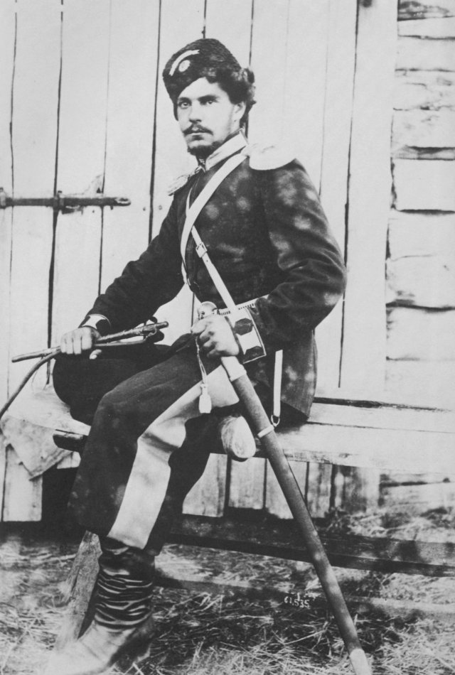 An Orenburg Cossack with his military equipment.